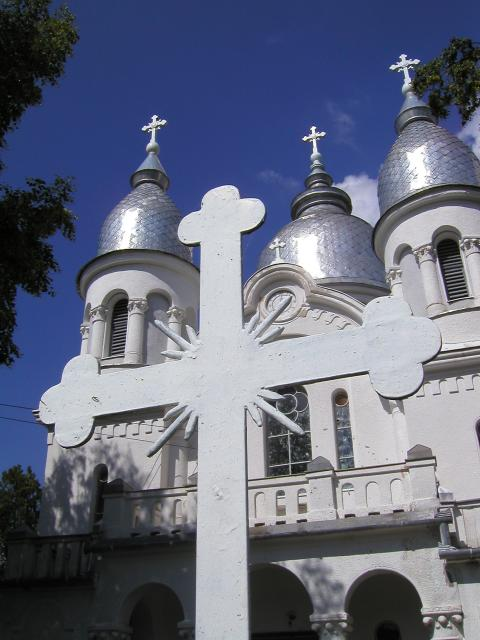 Church in the Romanian place of Aştileu